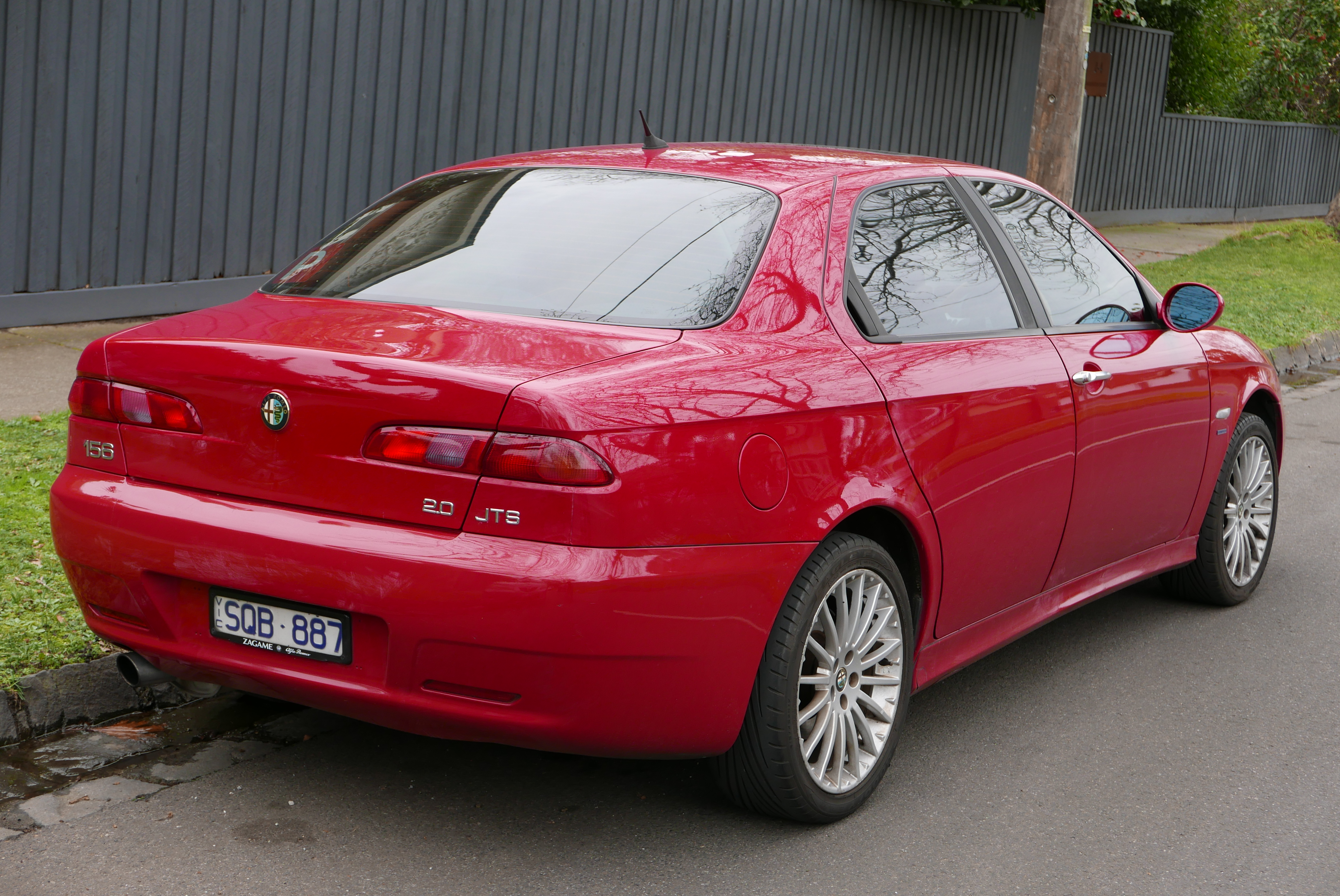 2004 Alfa Romeo 156 (MY04) JTS sedan. Photographed in Kew, Victoria, Australia. Vehicle registration enquiry results Jurisdiction Victoria Registration SQB887 Chassis code ZAR93200001340712 Engine code 937A10003733248 Compliance date 2004-01 Year of manufacture 2004